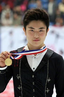 Yan Han during the men's medals ceremony at the 2013 Cup of China. He won the gold medal at this competition.